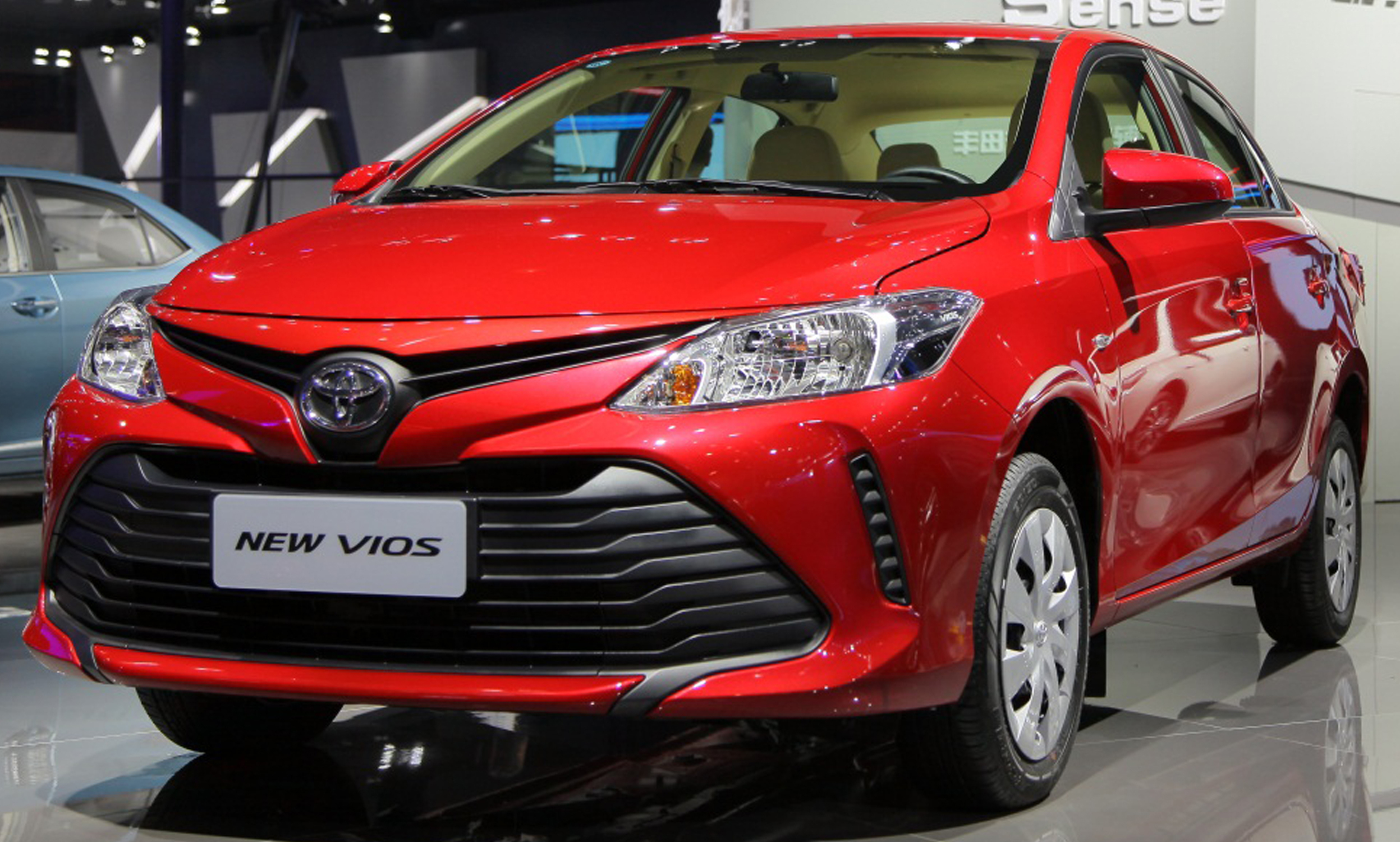 Vios FS facelift front view.